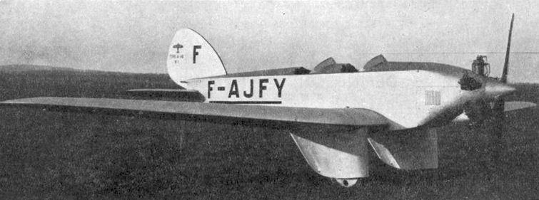 Albert A.60 photo from L'Aerophile Salon 1932